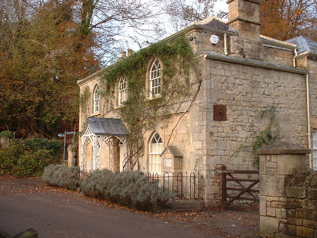 Tucking Mill Cottage, the house where William Smith was thought to have lived, at Tucking Mill. William Smith ('the father of English geology') was thought to have lived in this house when working on the Somerset Coal Canal. However, now it is believed that he actually lived at the nearby Tucking Mill House